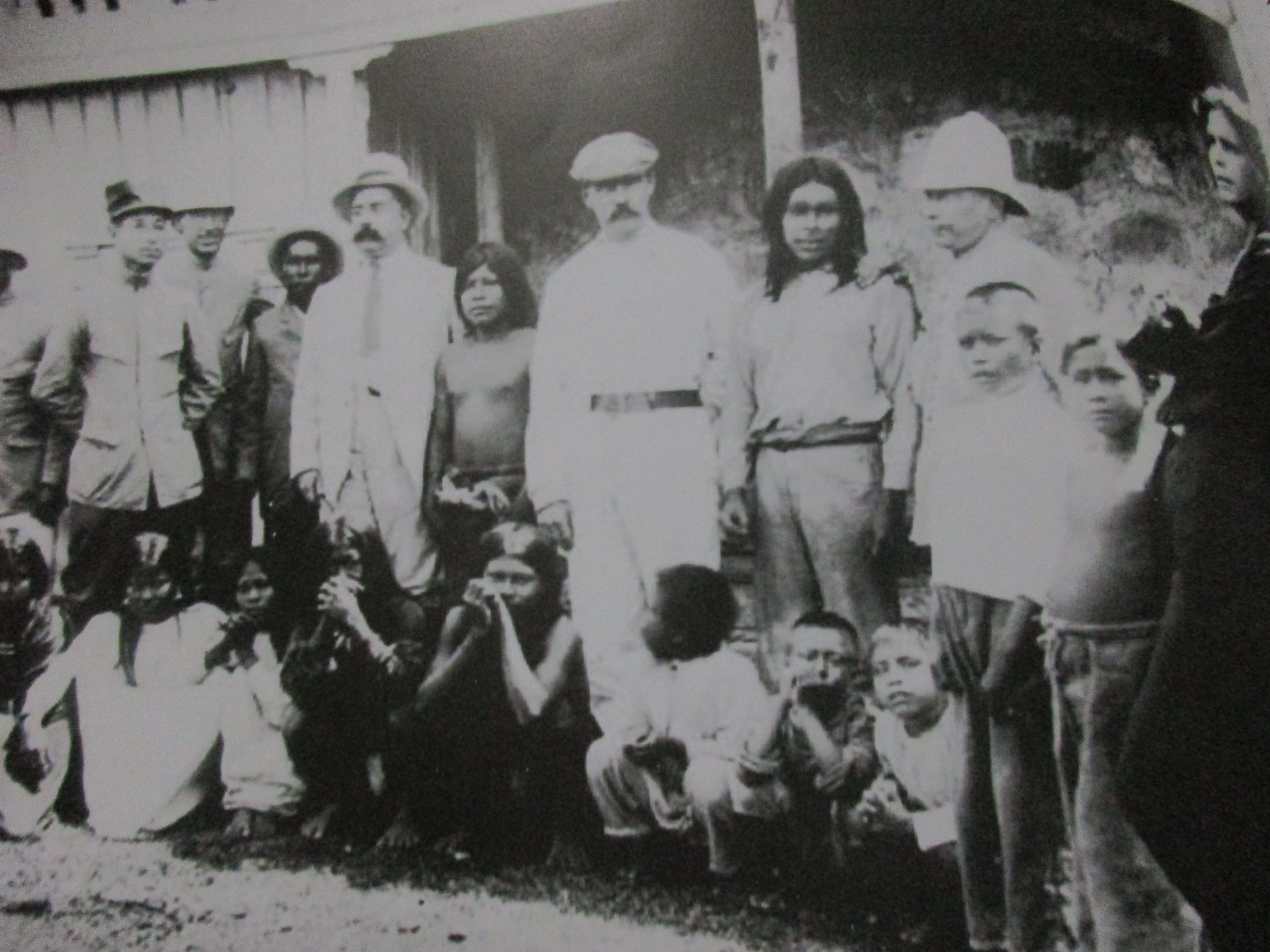 Julio C. Arana with escorts from Scotland Yard arrived from Barbados, British colony.